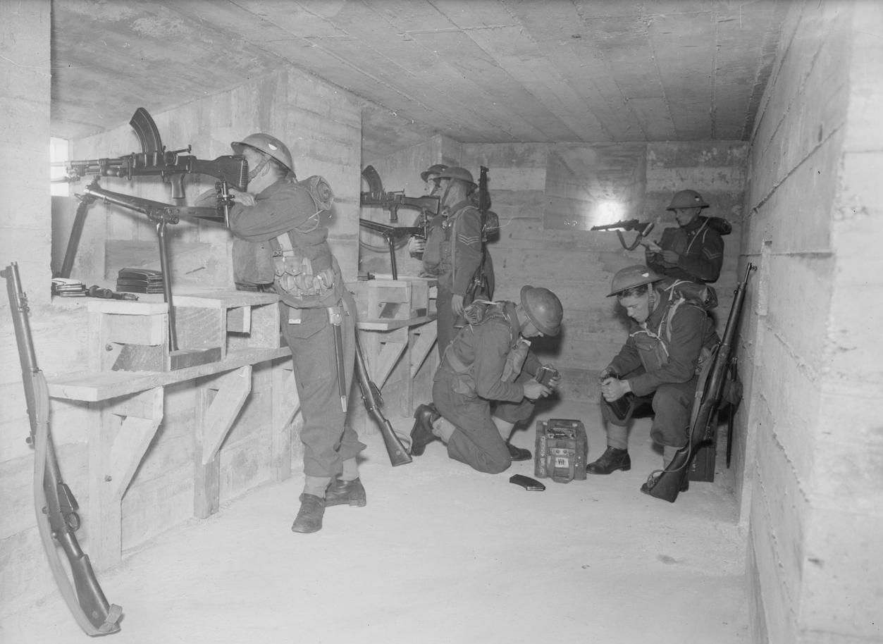 The British Army in the United Kingdom 1939-45 Men of 7th Battalion, The Green Howards on guard duty inside a blockhouse at Sandbanks, near Poole in Dorset, 31 July 1940.